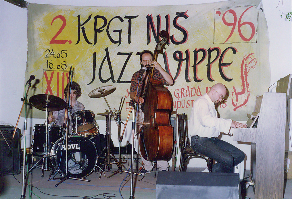 Branko Marković (double bass), Ognjen Radivojević (piano), Petar Radmilović (drums)